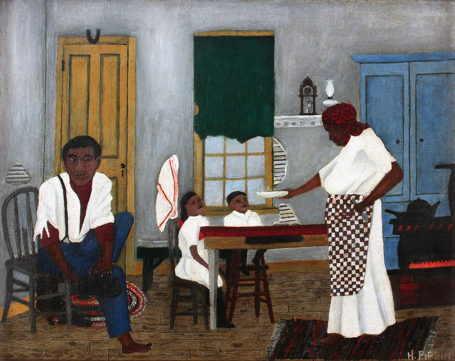 Sunday Morning Breakfast by Horace Pippin, 1943, oil on fabric, 16 x 20 inches. Saint Louis Art Museum